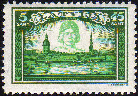 Semi-postal postage stamp issued by Latvia 1932 depicting view of Riga, Latvia.